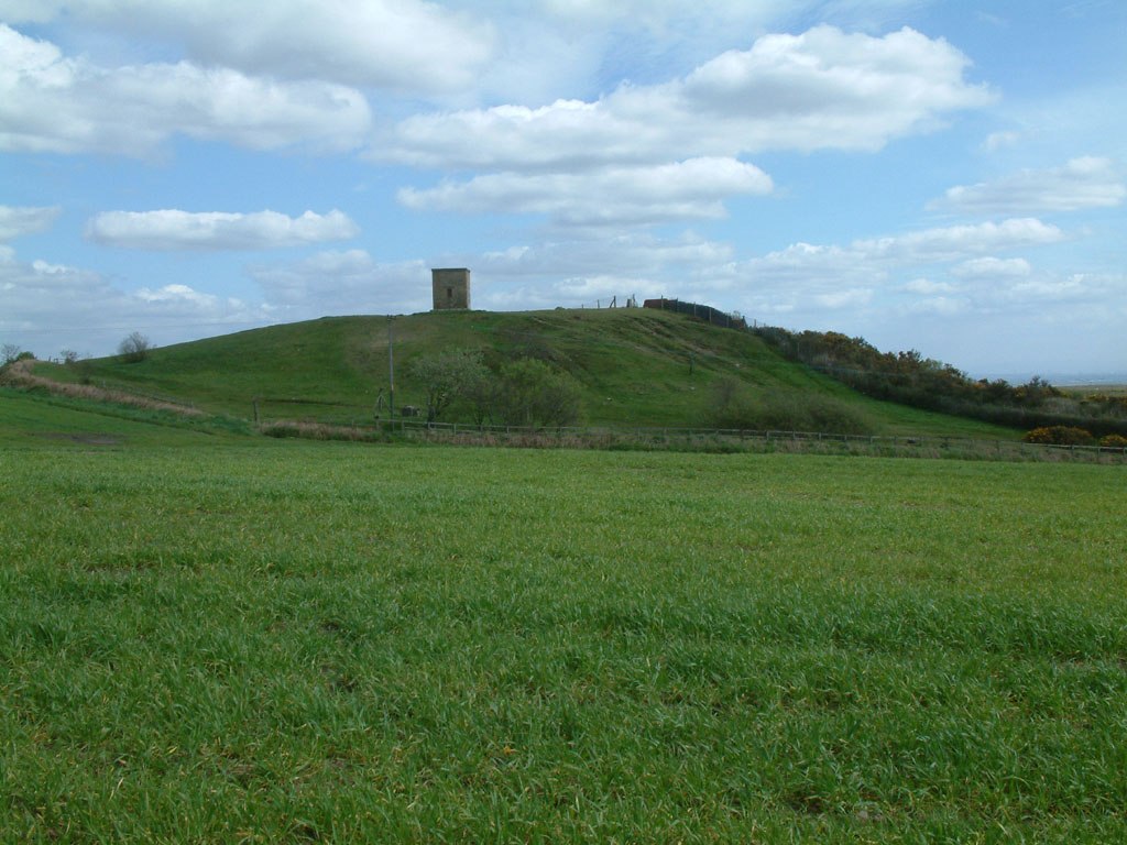 The beacon tower on Billinge Hill. Photograph by Stephen Dawson, en:29 April en:2005.